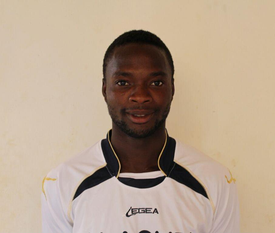 YAW ARNOL 2016